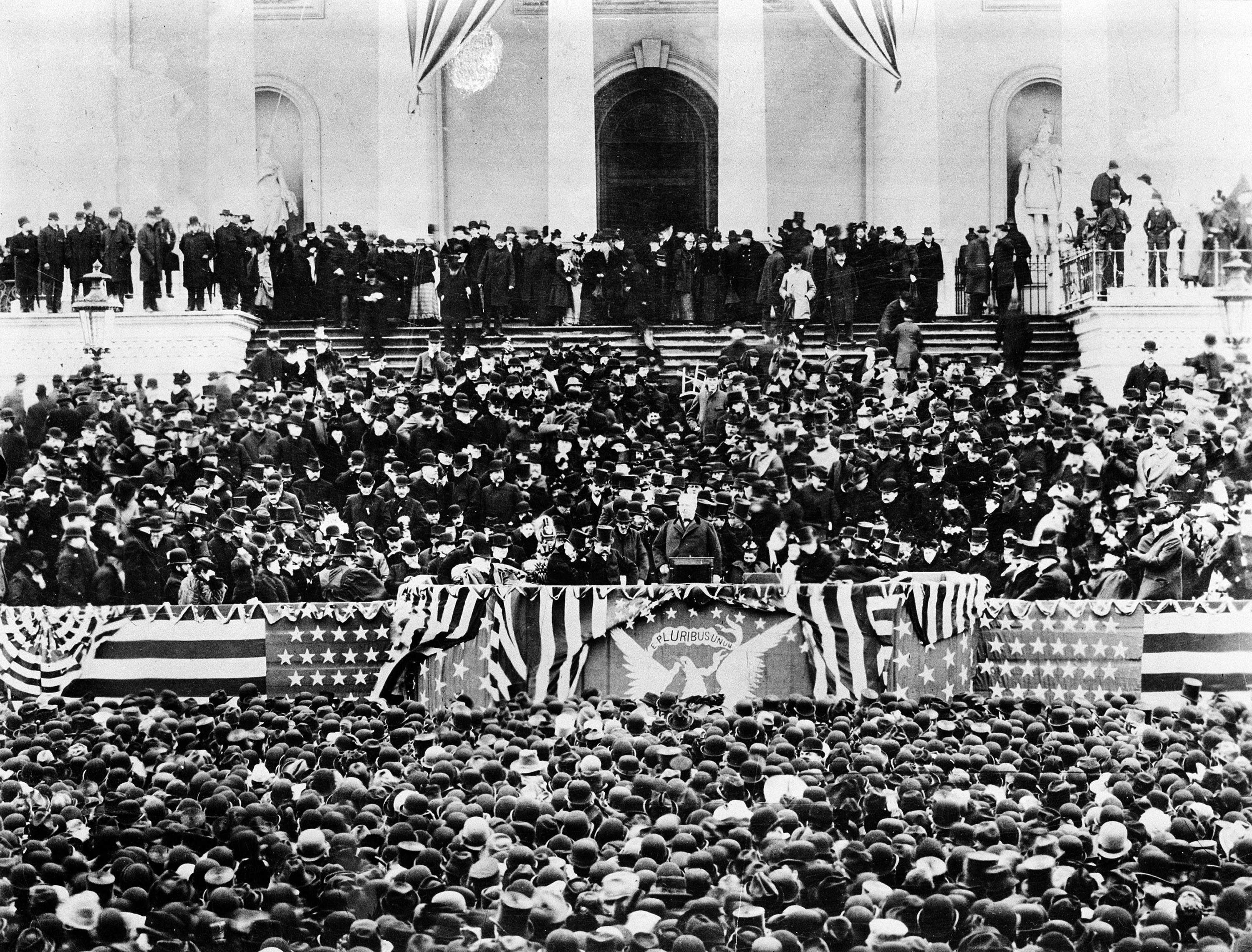 Second inaugural address of Grover Cleveland. The presidential flag (1882 version) is directly underneath the podium.